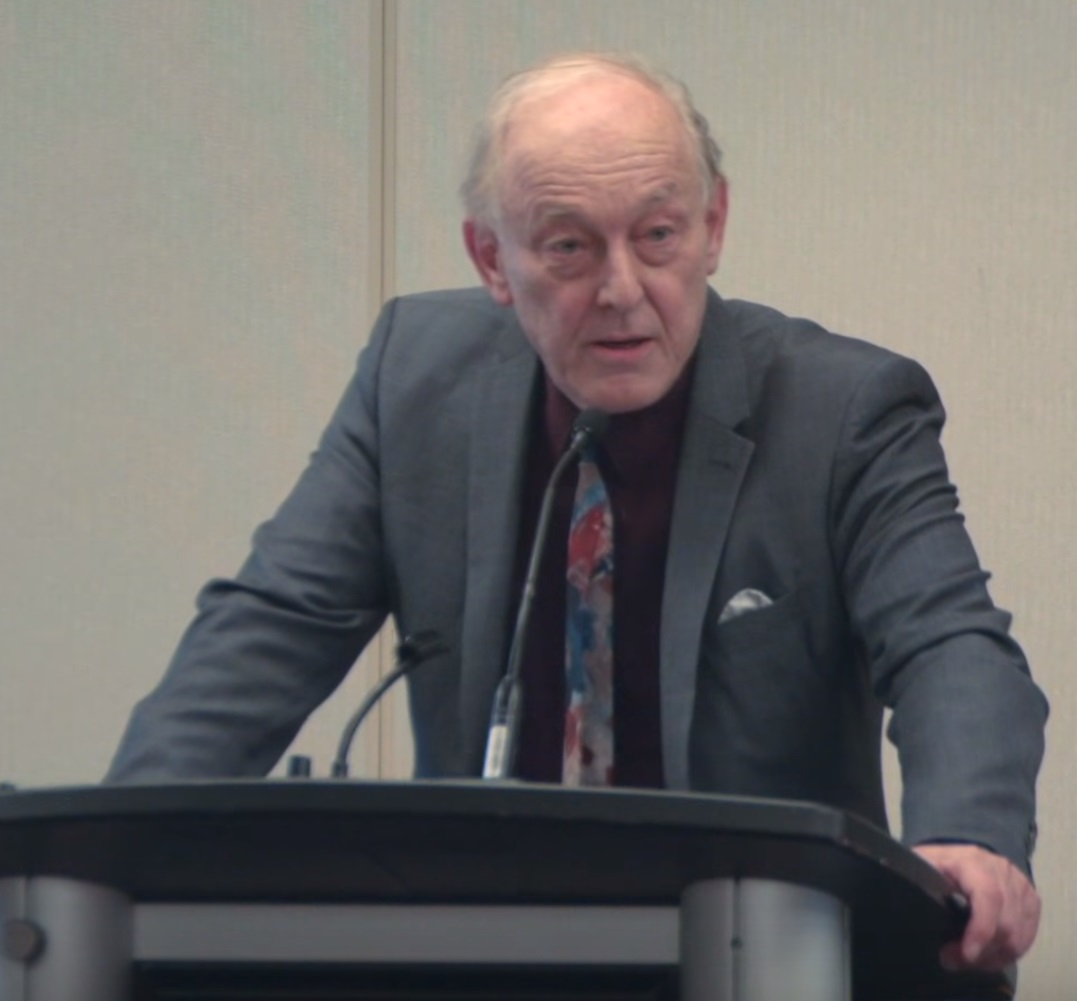 En direct d'Alep conference in Montreal. Michel Chossudovsky is a Canadian economist and author. He is a professor of economics at the University of Ottawa and the president and director of the Centre for Research on Globalization.